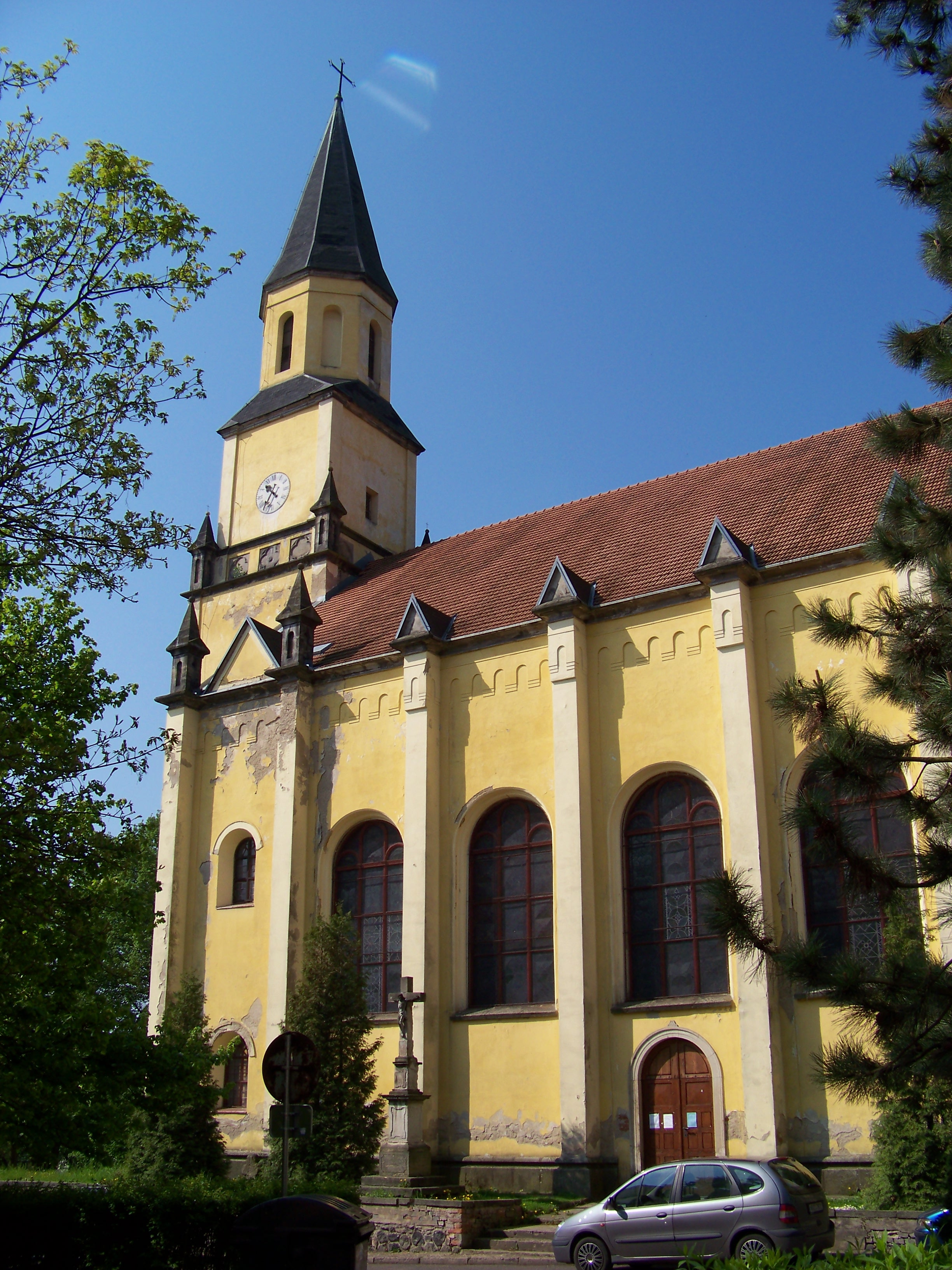 Chlumec, Ústí nad Labem District, Ústí nad Labem Region, Czech Republic. Krušnohorská street, a square. Church of Saint Gall.